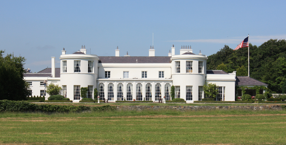 Deerfield, or the Chief Secretary's Lodge, residence of the American Ambassador to Ireland in the Phoenix Park, Dublin.